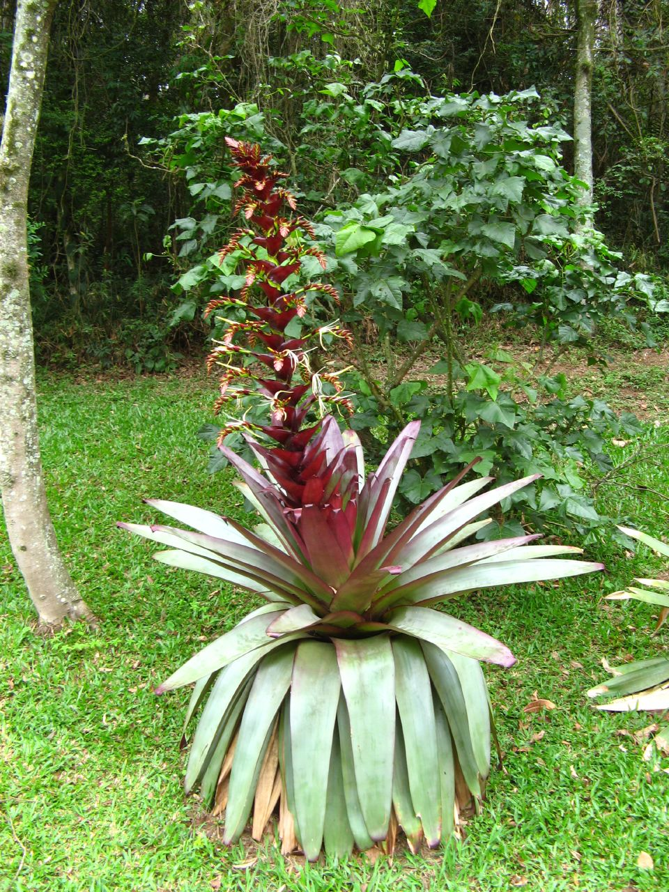 bromelia imperial (Alcantarea imperialis) with one single giant & rare flower in the center